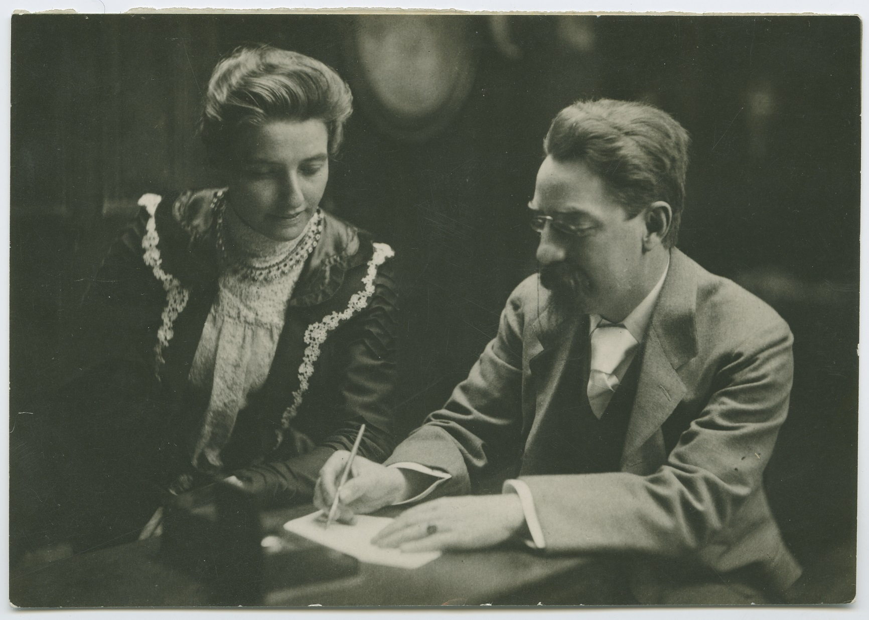 Beatrice & Sidney Webb working toggther at a table. Published in Beatrice Webb's second volume of autobiography 'Our Partnership' (1948). Martha Beatrice Webb (1858-1943); nee Potter, social reformer. Sidney James Webb (1859-1947); Baron Passfield; politician IMAGELIBRARY/1385 Persistent URL